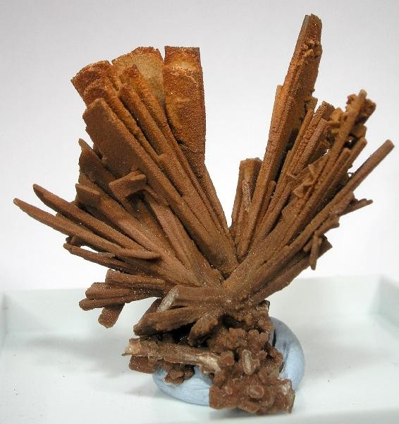 Hopeite, Hemimorphite Locality: Kabwe Mine (Broken Hill Mine), Kabwe (Broken Hill), Central Province, Zambia (Locality at ) Size: 3.5 x 3 x 2 cm. This pseudomorph of hopeite after hemimorphite is spectacular and it is very rare. Diverging blades clearly exhibiting parallel growth of hemimorphite, to 2.5 cm in length and of an umber color have been replaced by hopeite, the much rarer zinc phosphate. Ex. Martin Zinn Collection. This Photo was Photo of the Day - 1st Sep 2008